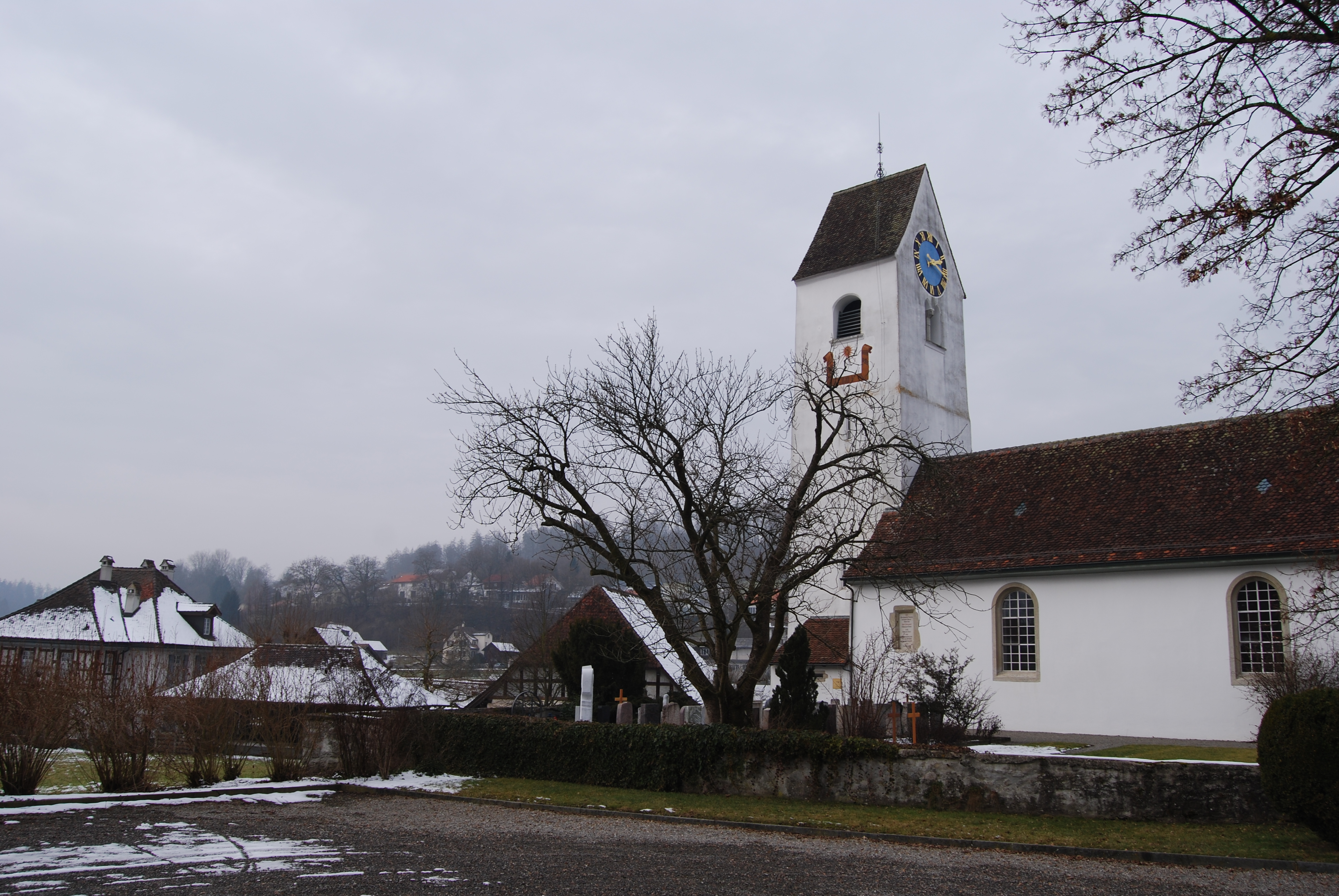 Church of Ammerswil, canton of Aargau, SwitzerlandEsperanto: Preĝejo de Ammerswil, Kantono Argovio, Svislando